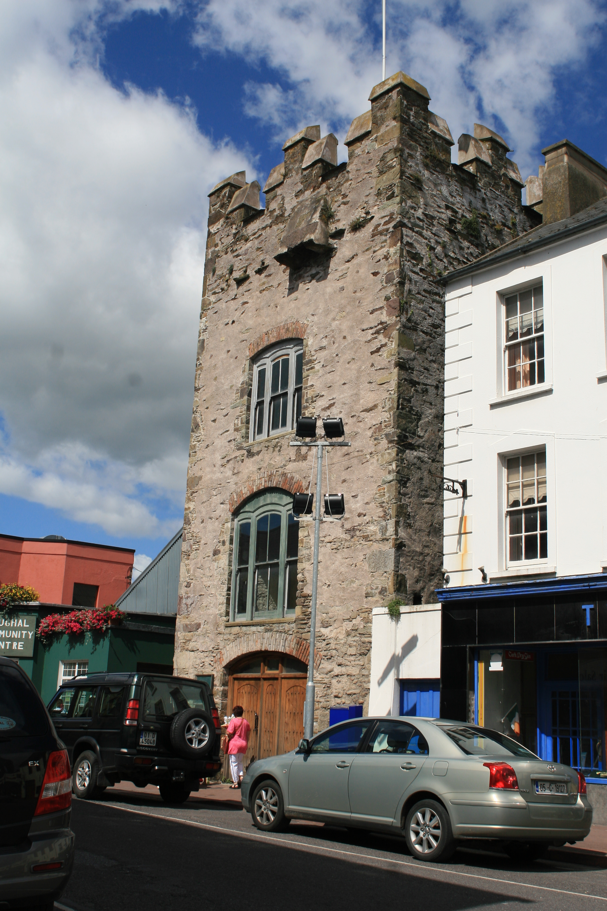 Tynte's Castle, a 15th-century urban tower house, on the east side of the North Main Street in Youghal.